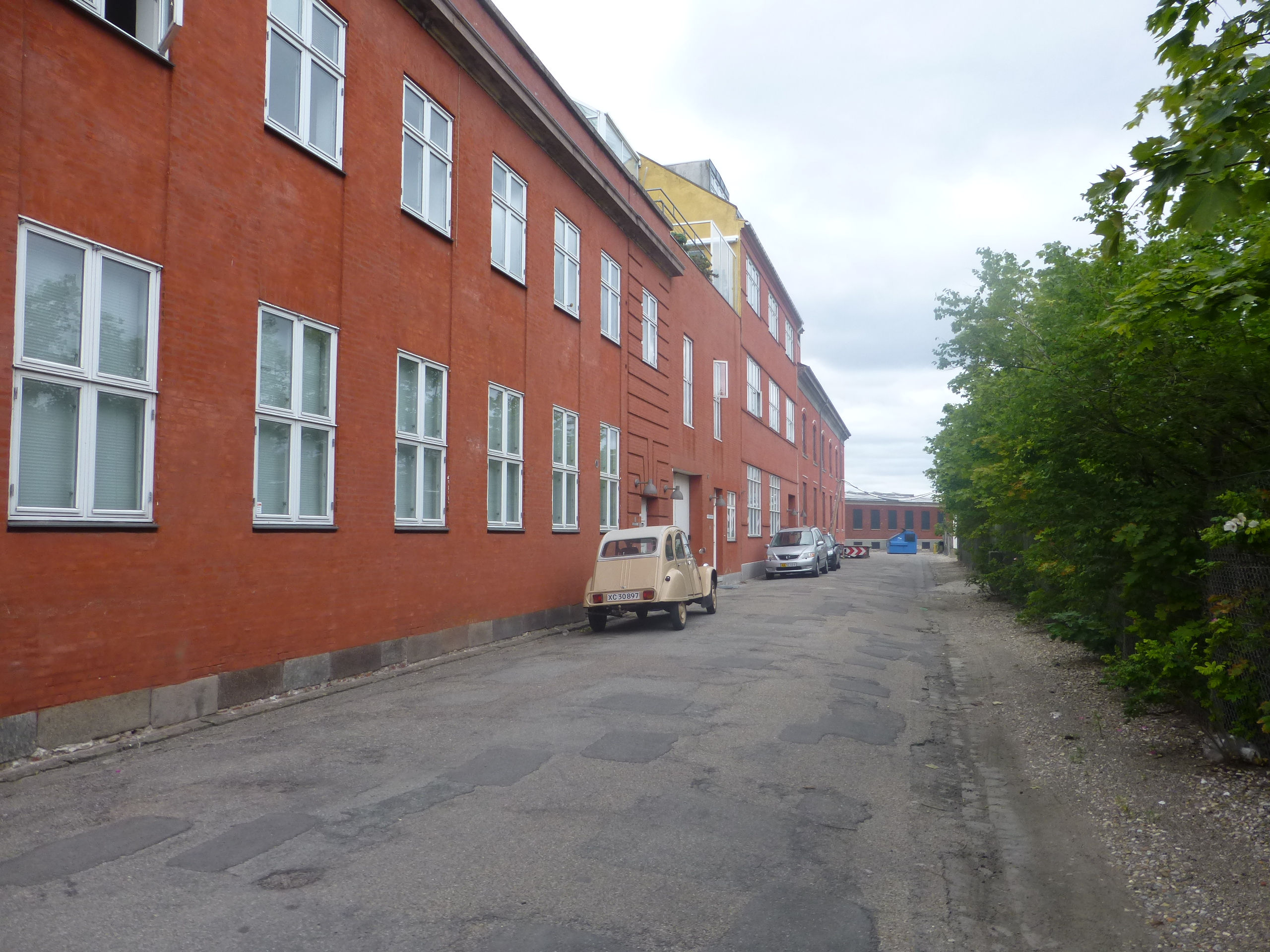 The street Jernvej in Nordhavn in Copenhagen. In 2014 this part of the street became Bilbaogade, while another part became Sassnitzgade.